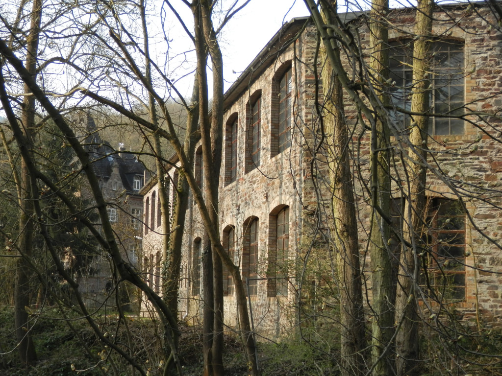 Woolfactory Moselkern